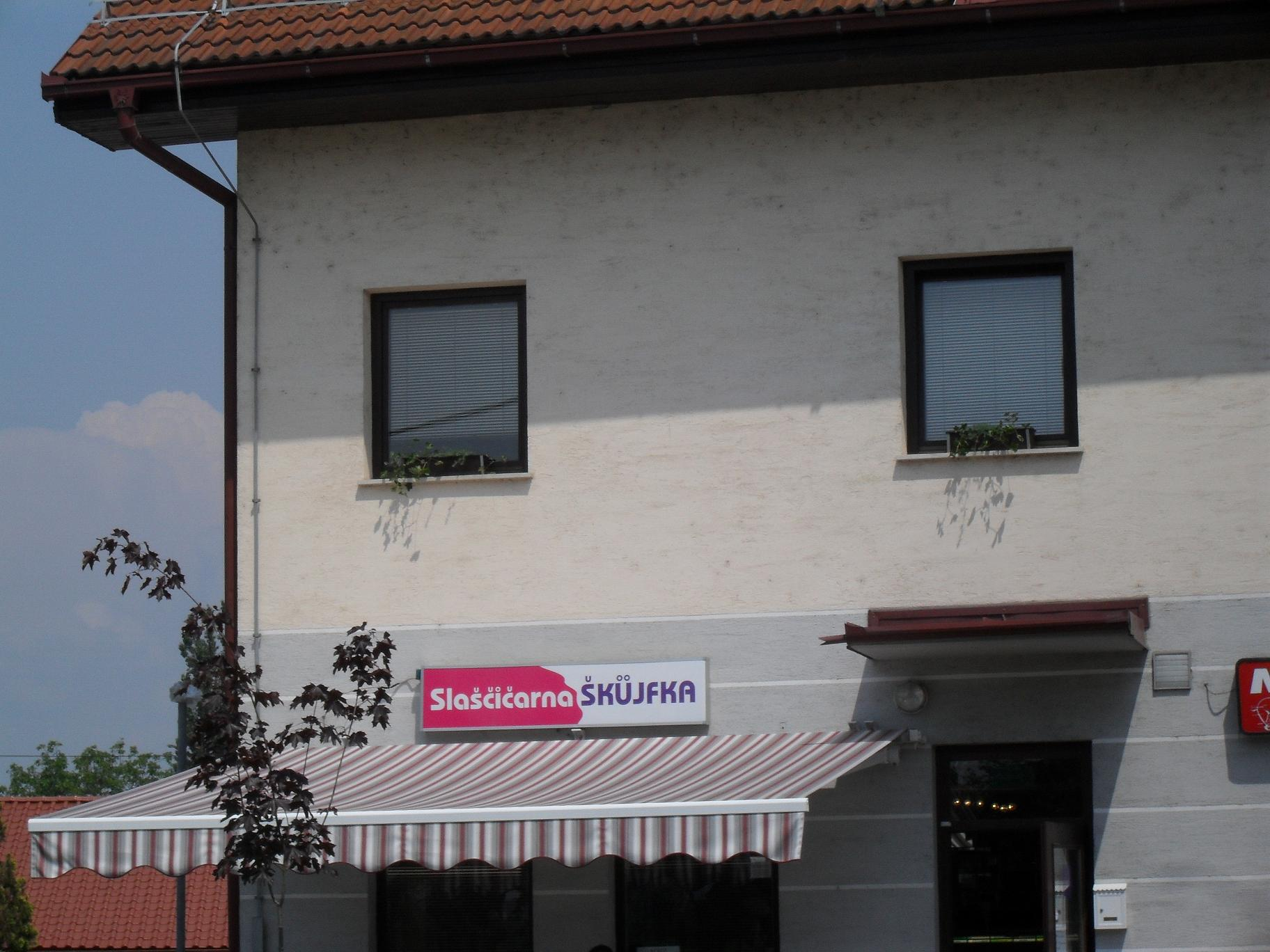 Confectionery Šküjfka (in prekmurian language: Gall) in Tišina, Prekmurje